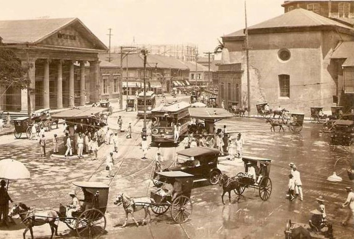 Manila, once known as the Paris of Asia